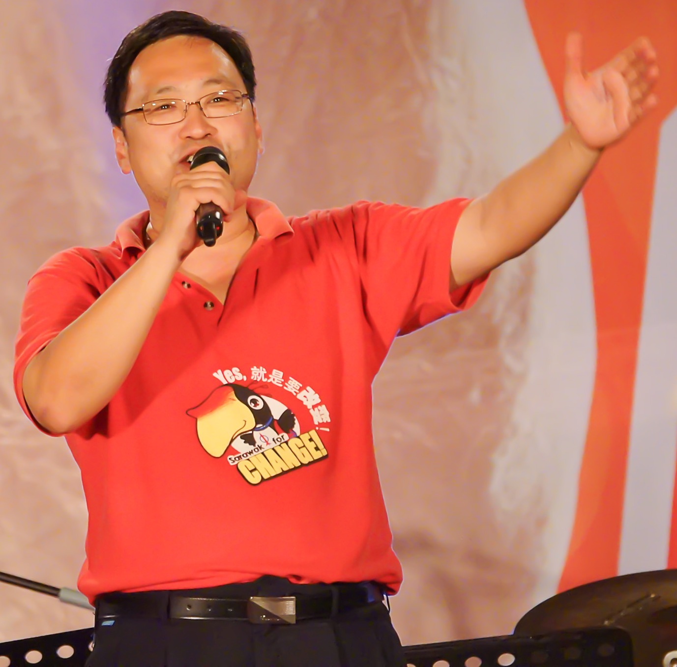 Chong Chieng Jen, member of parliament for Kuching city, giving a speech during a rally in Kuching, Sarawak before the polling day of 2013 Malaysian General Election.